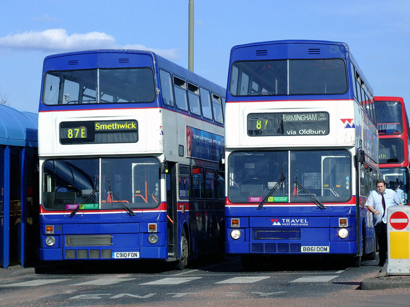 2 Travel West Midlands MCW Metrobus seen in Dudley bus station